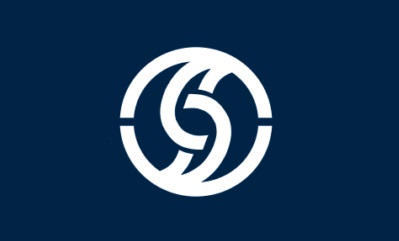 Flag of Kudamatsu Yamaguchi